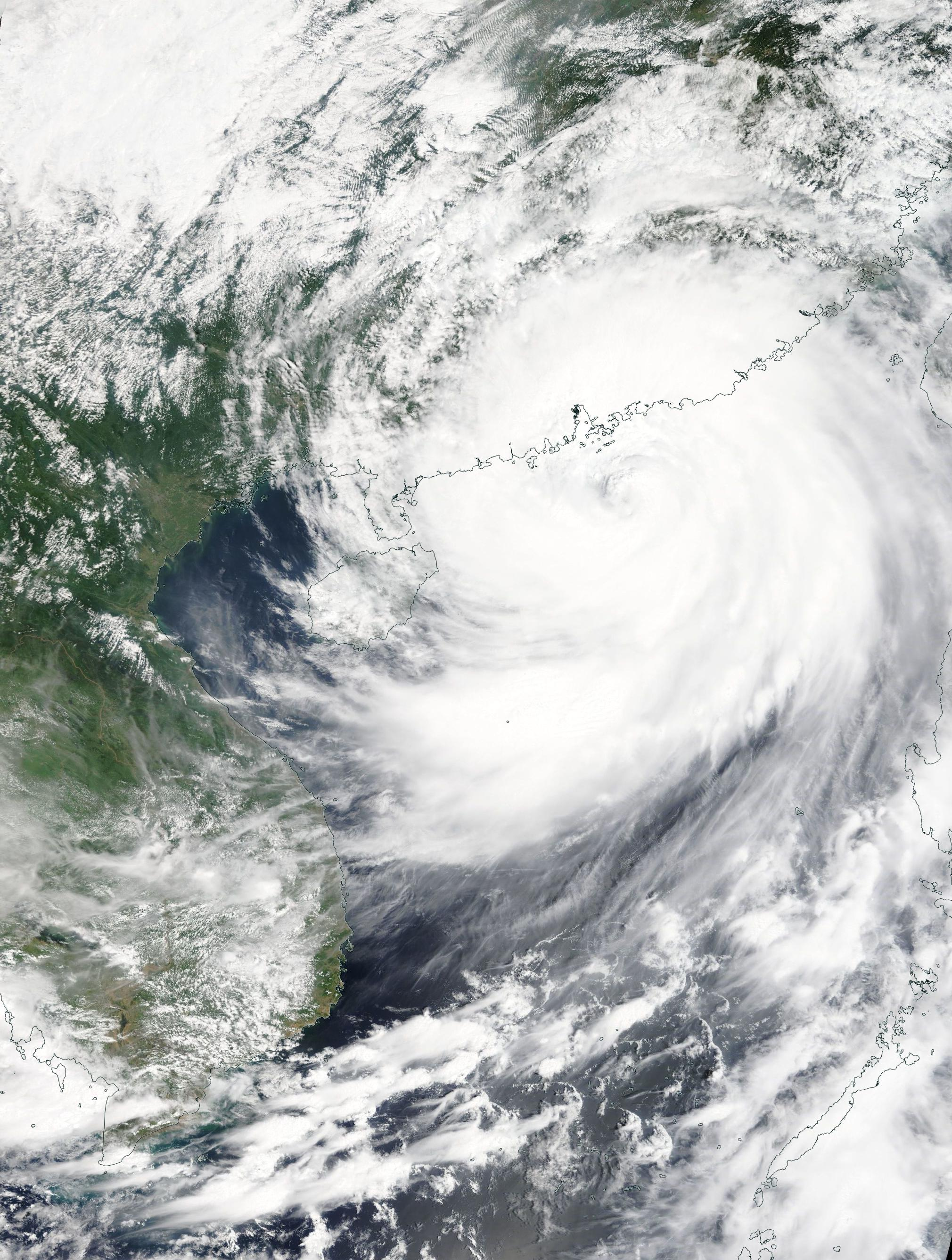 Typhoon Mangkhut making landfall on China, on September 16.